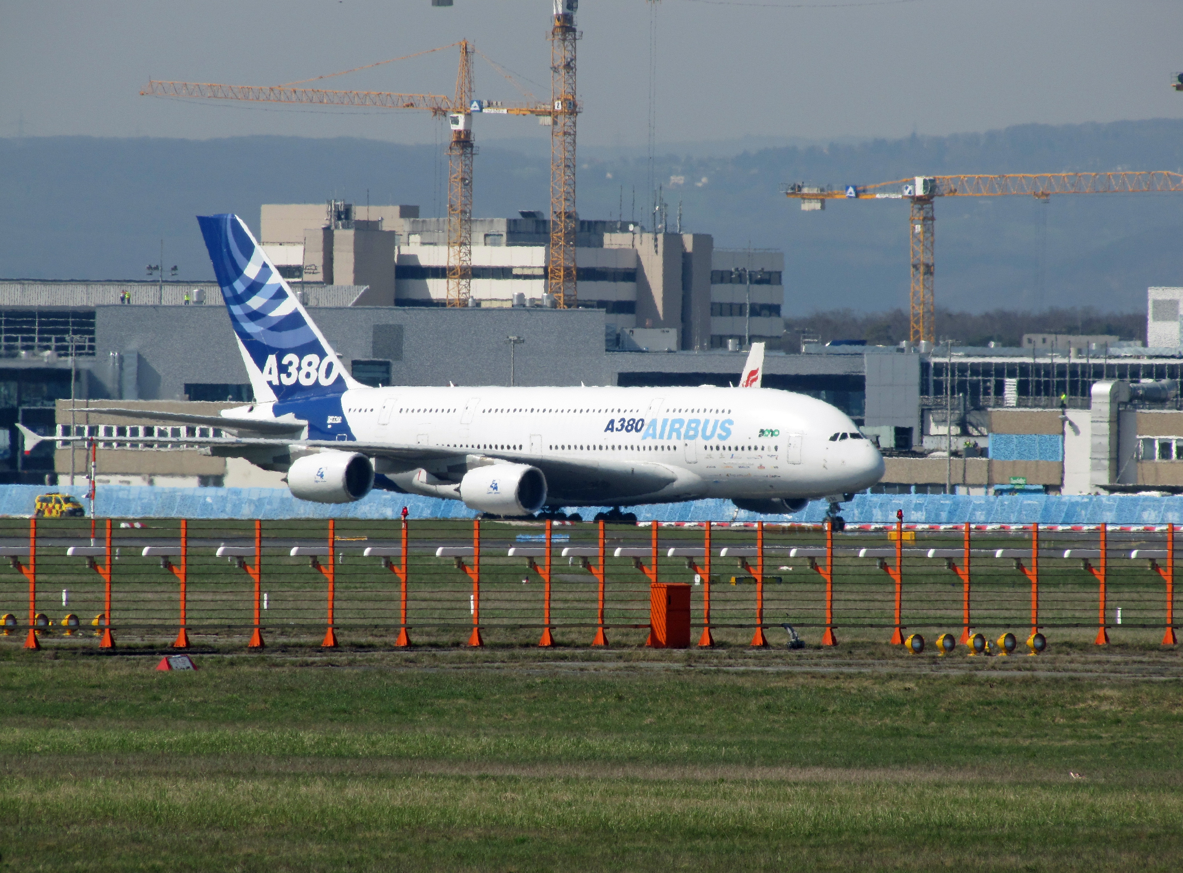 Airbus A380, visiting Frankfurt Airport for some dispatch training-units of the airport crew.